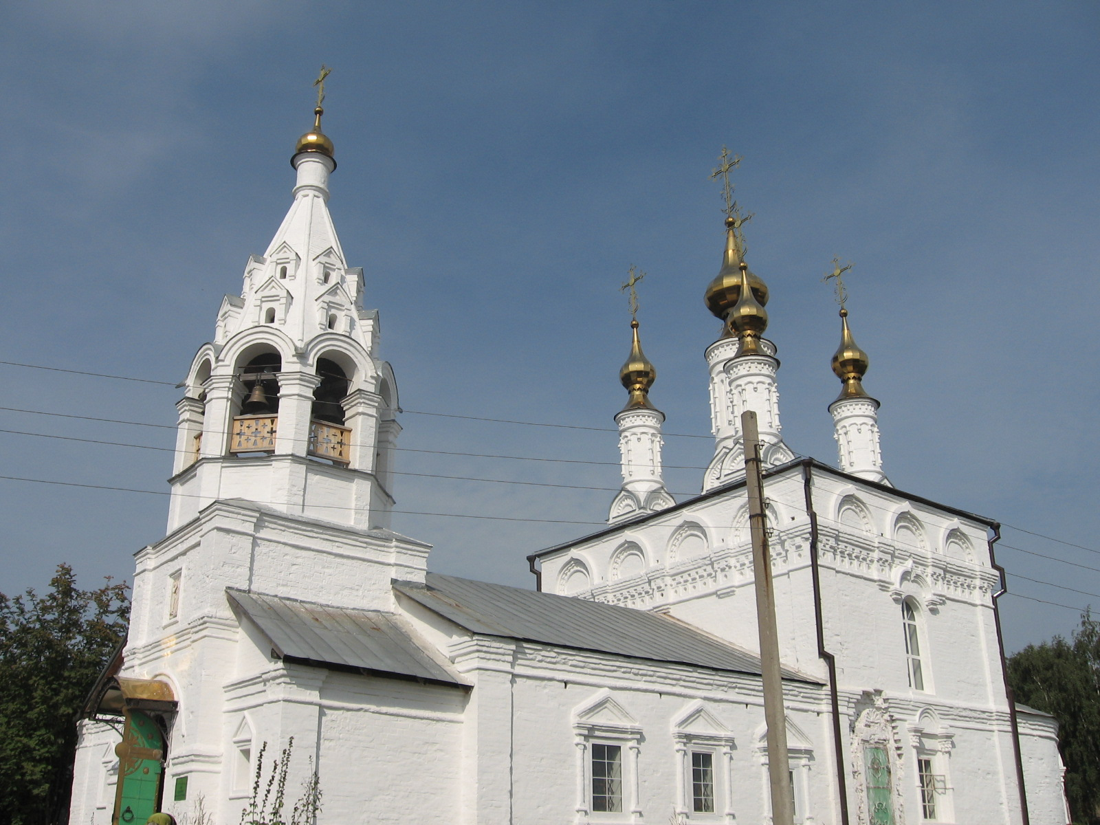 Church of Annunciation of Virgin Mary (Ryazan, XVII century)